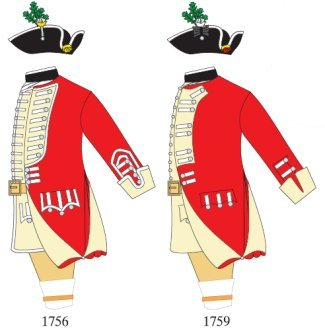 Fabrice Infantry Uniform